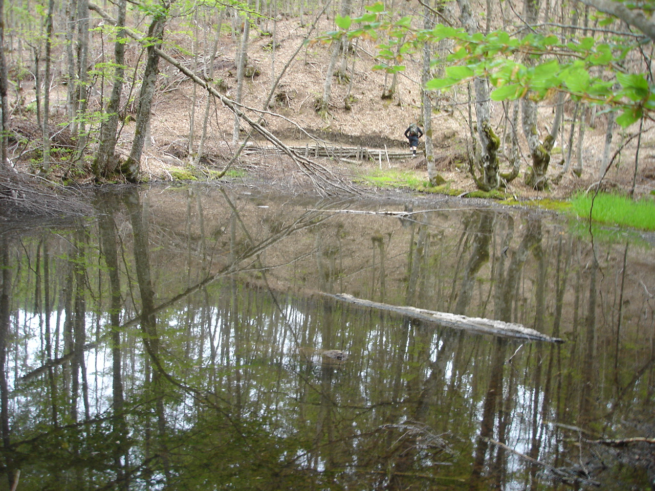 Samevo - Ezerche glacial lake on Deshat mountain, Macedonia